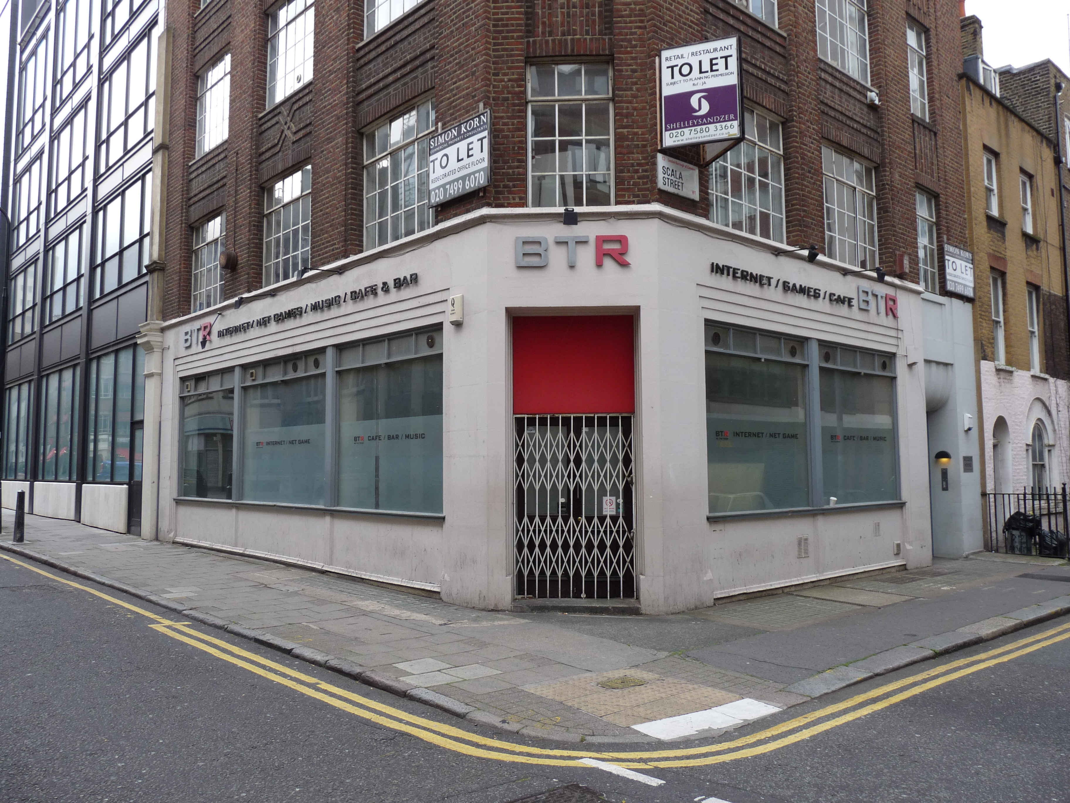 BTR (Be The Reds) 39 Whitfield Street, Fitzrovia London, W1T 2SF (was Cyberia)